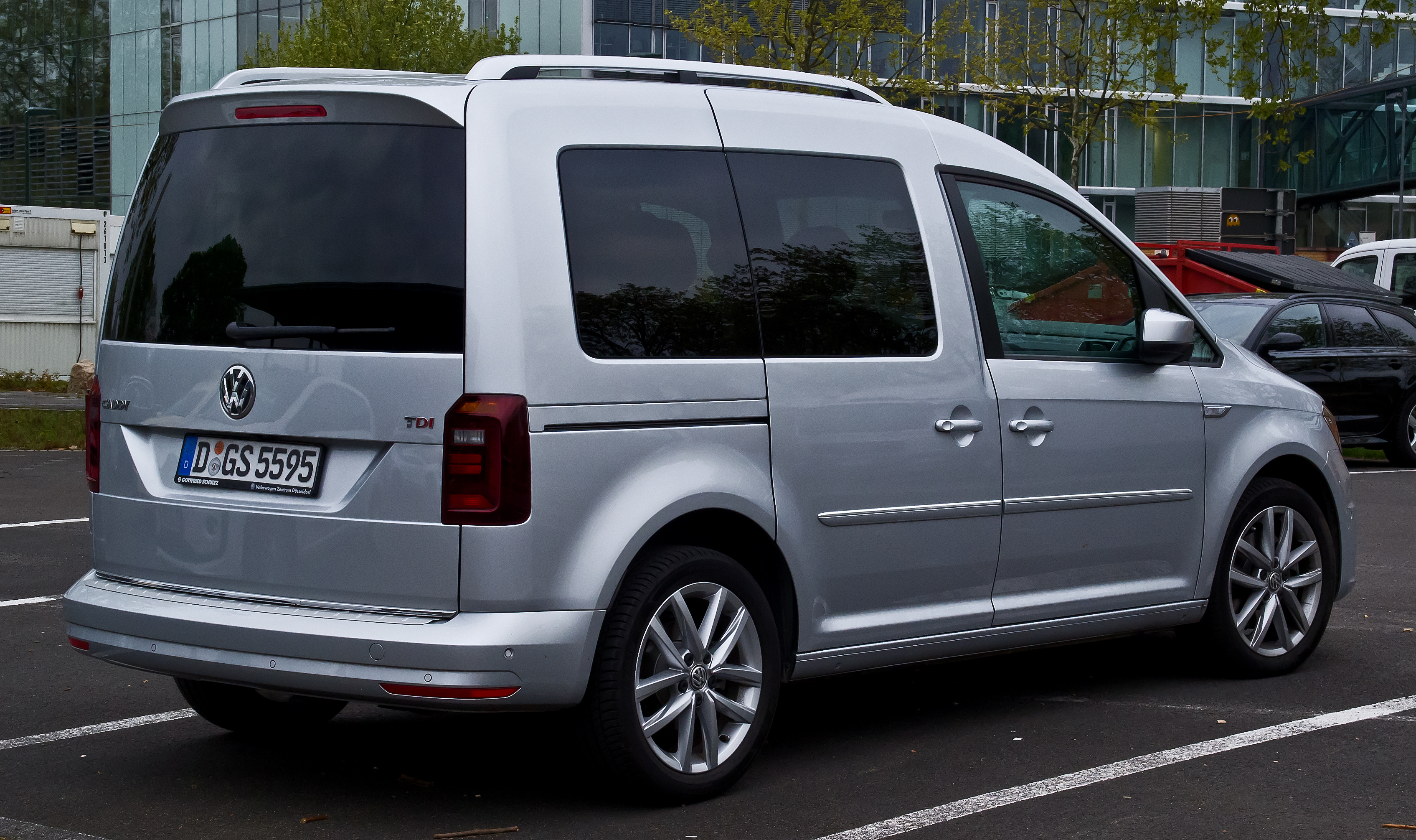 VW Caddy 2.0 TDI BlueMotion Technology Highline (2K, 2. Facelift)